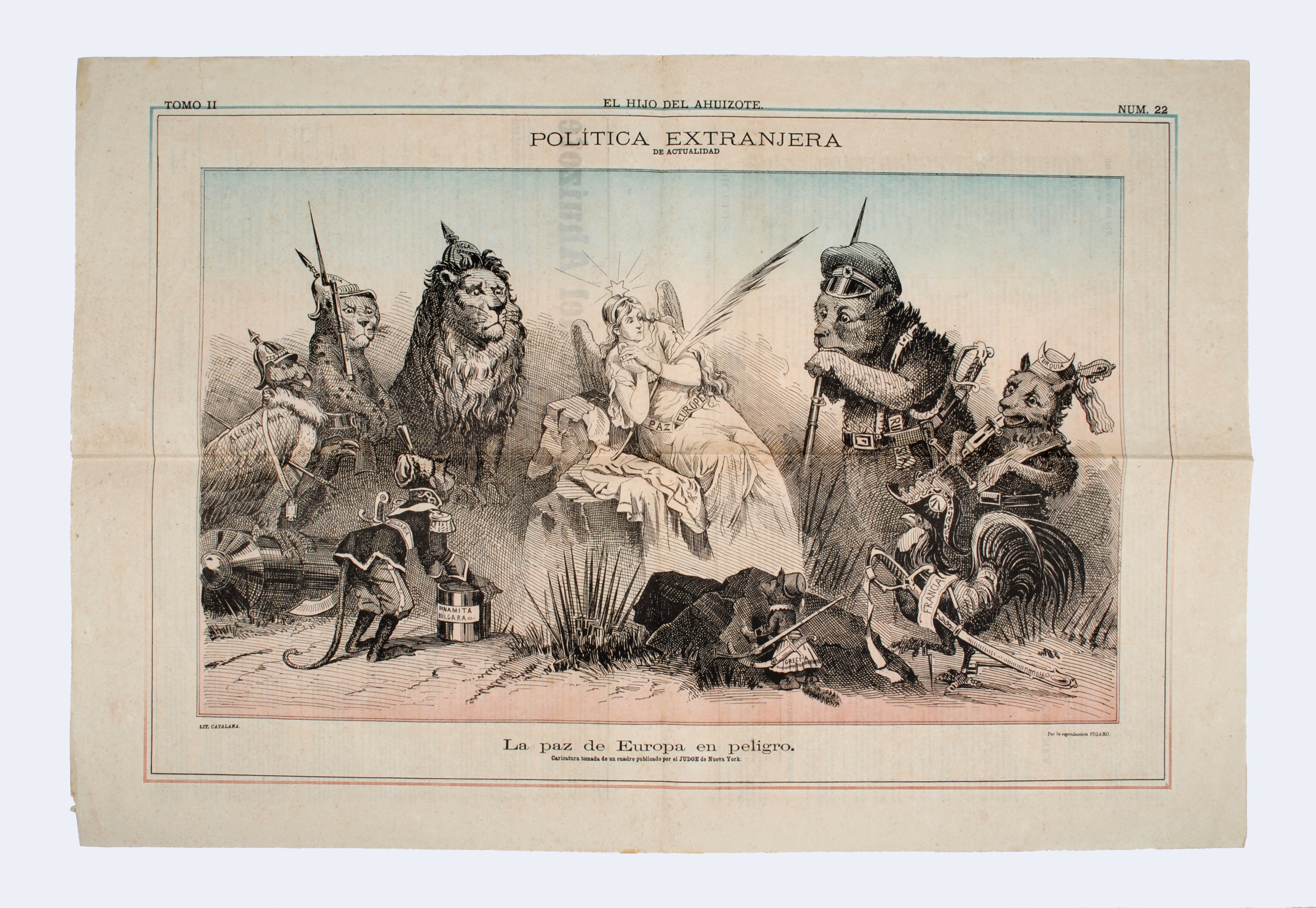 Caricature published in El Hijo del Ahuizote on 1887.